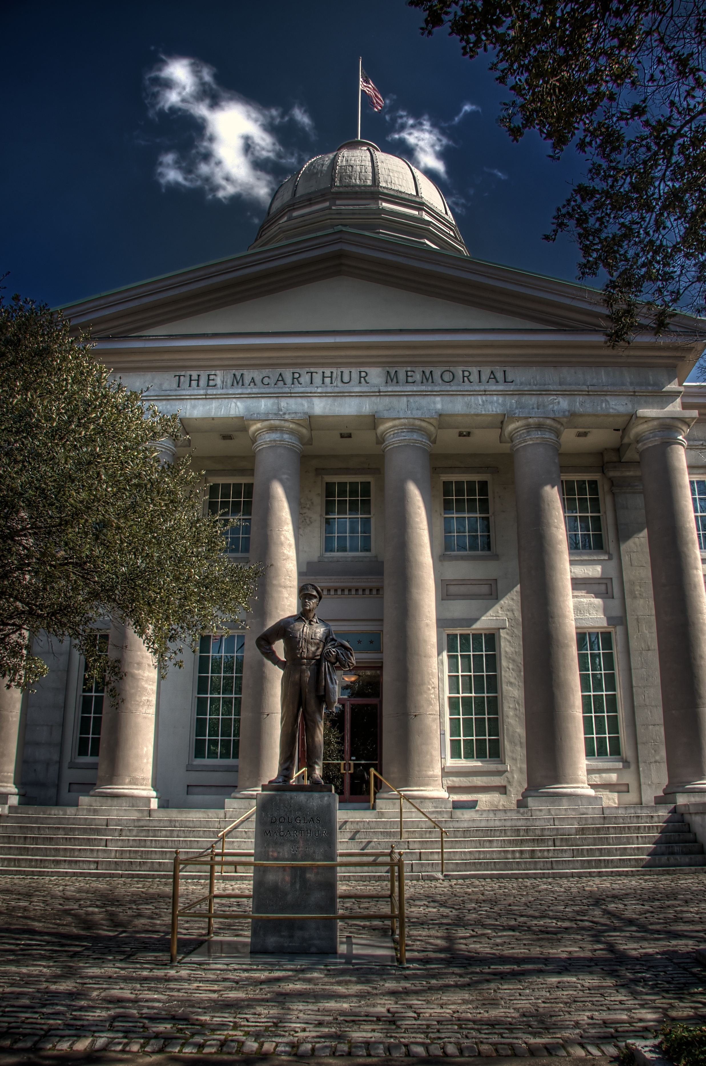 This is a photograph of the MacArthur Memorial in Norfolk, Virginia.